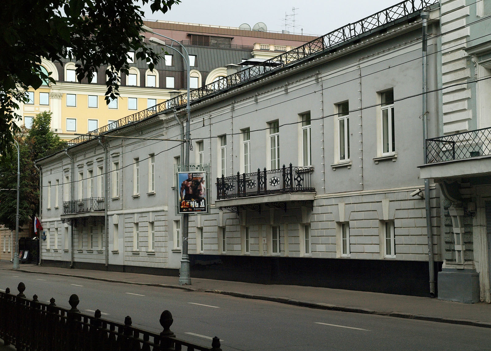 Tverskoy Boulevard, Moscow